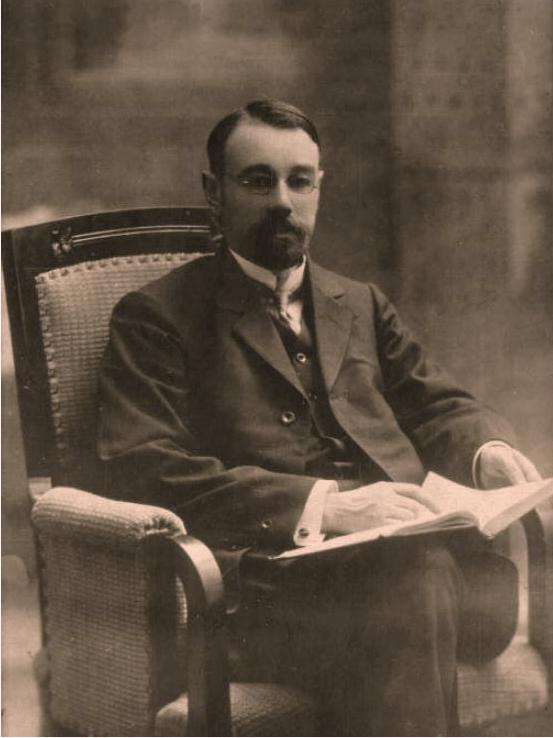 Liverij Osipovich Darkshevich